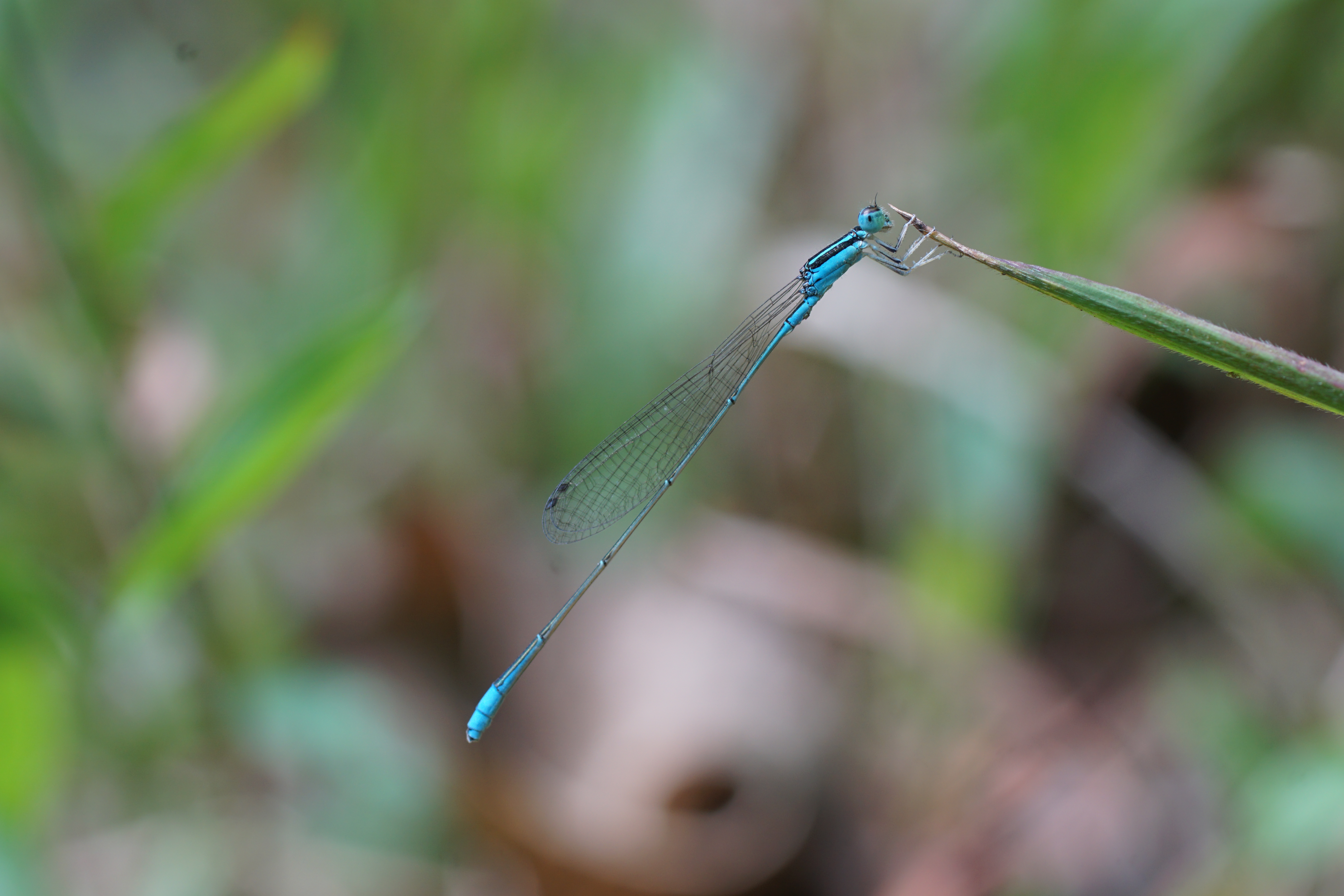 Aciagrion occidentale,male